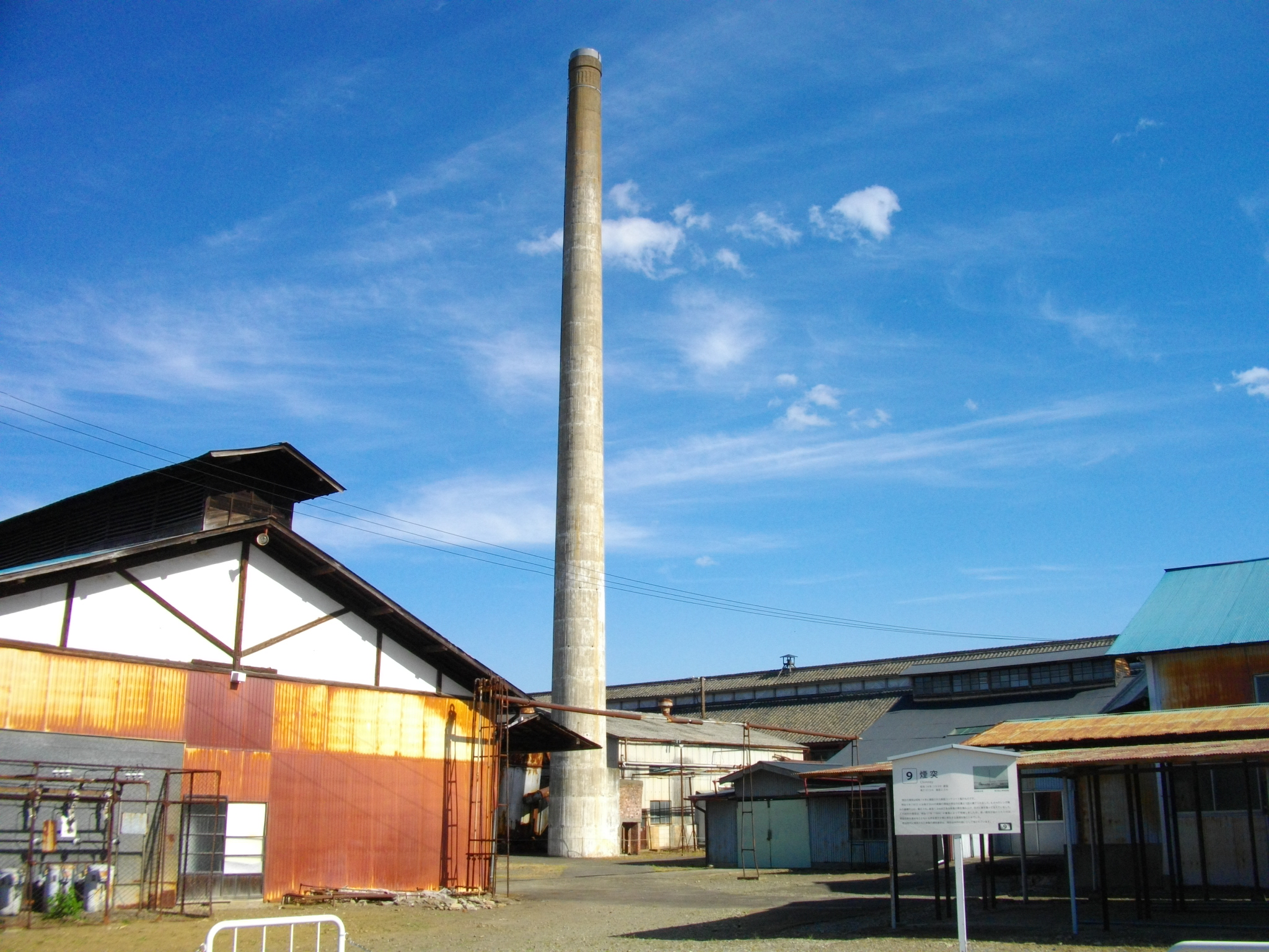 Tomioka Silk Mill Chimney